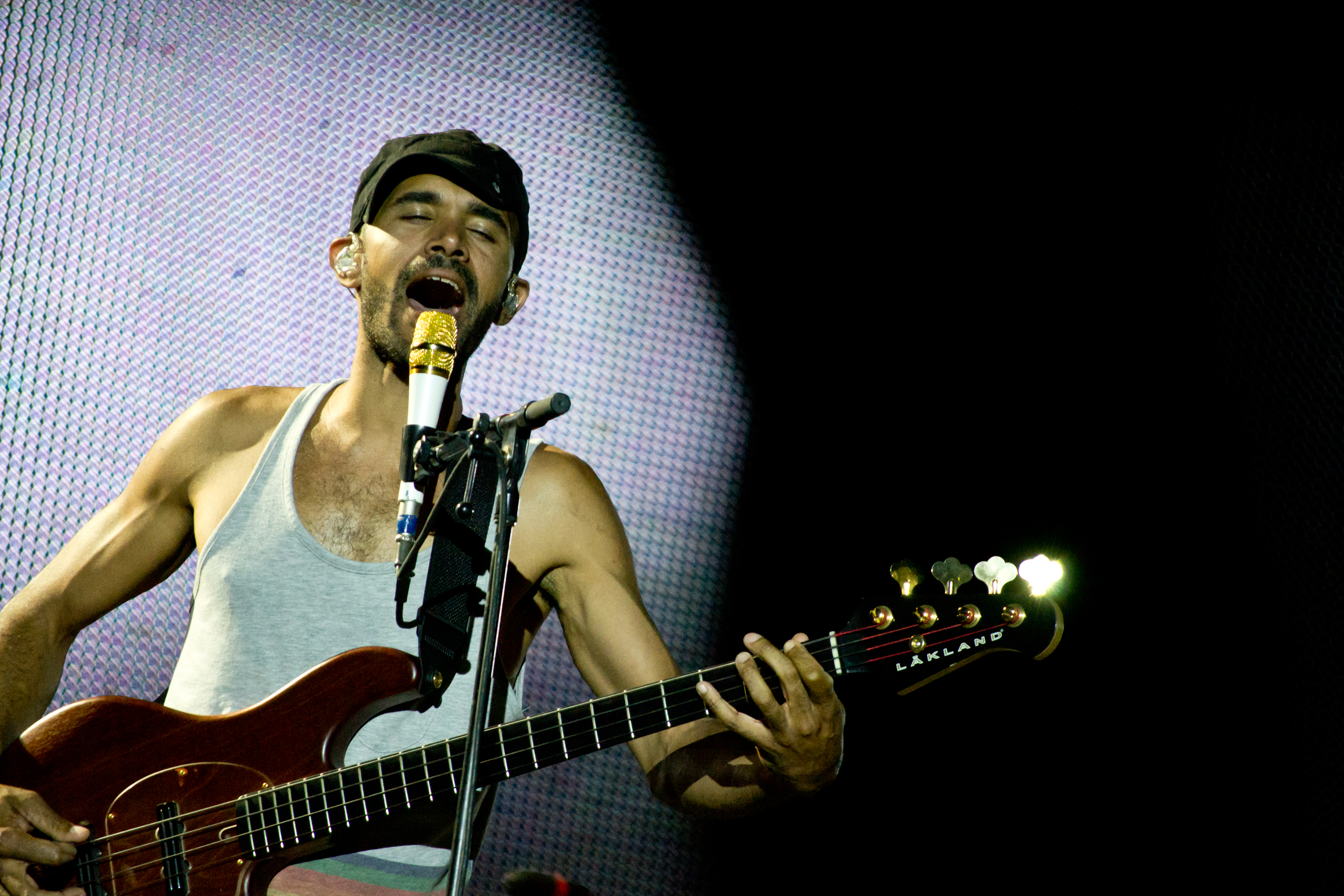 Incubus in Rock in Rio Madrid 2012.